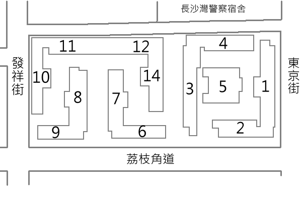 former cheung sha wan wstate